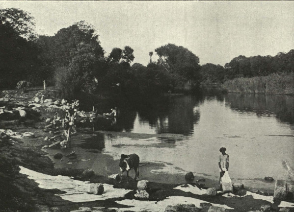 Dhobies (Indian Washermen) - Washermen near Saidapet, Chennai, Tamil Nadu